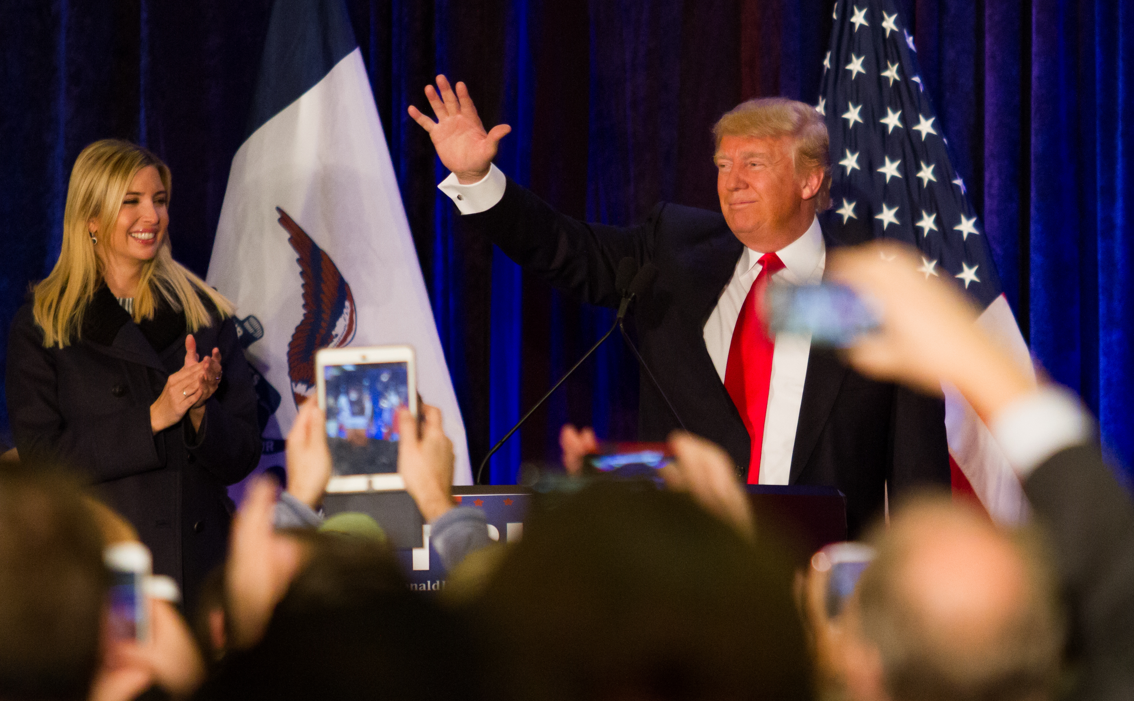 After securing his place in the top three in the Republican caucuses, presidential candidate Donald Trump spoke briefly to a crowd a watch party, Feb 2 in West Des Moines. Trump said, "I love you people, I love you people, thank you very much."